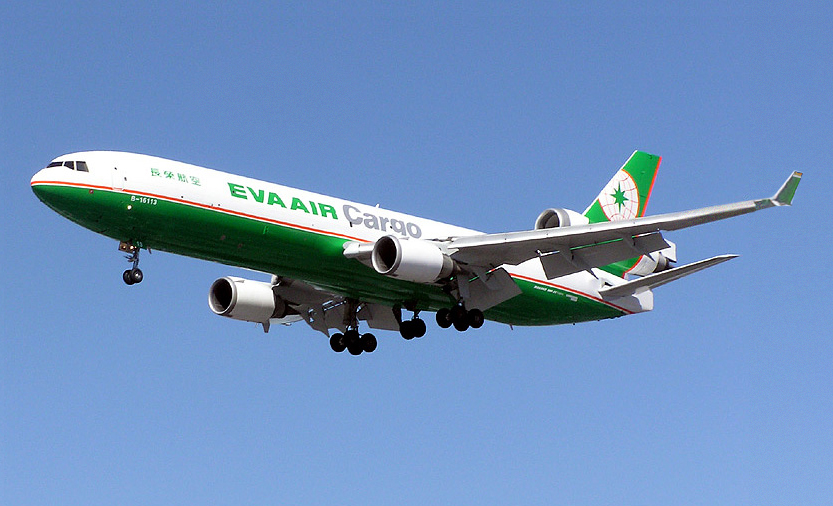 EVA Air Cargo McDonnell Douglas MD11F (B-16113) landing at London (Heathrow) Airport in August 2004. Taken by Adrian Pingstone and released to the public domain. Varig McDonnell Douglas MD-11 (PP-VQJ) landing at London (Heathrow) Airport in July 2004. Taken by Adrian Pingstone/en.wp and released to the public domain